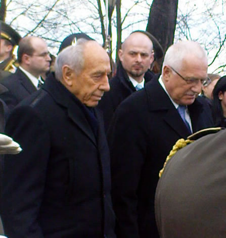 Israeli president Shimon Peres and Czech president Vaclav Klaus during ceremony at National Cemetery and concentration camp Terezin.